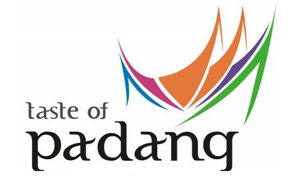 Official tourism tagline of Padang, West Sumatra, Indonesia.